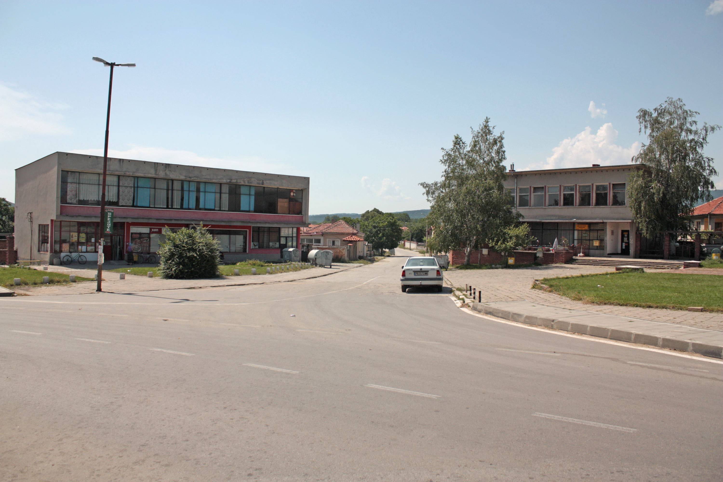 Krasnovo vilage central square